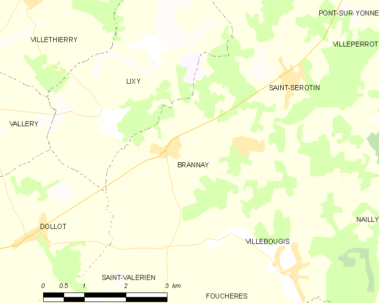 Map of French municipality Brannay